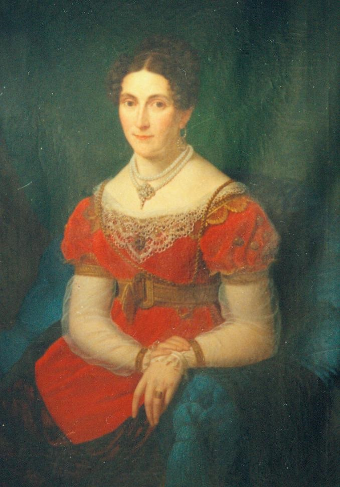 Antoinette von der Decken born von Gruben 1781-1855 wife of Graf Friedrich von der Decken 1769-1840